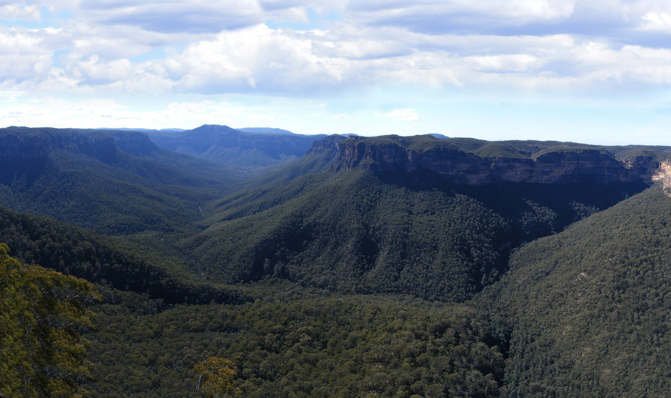 View from Evans Lookout, outside Blackheath, Blue Mountians, NSW, Australia